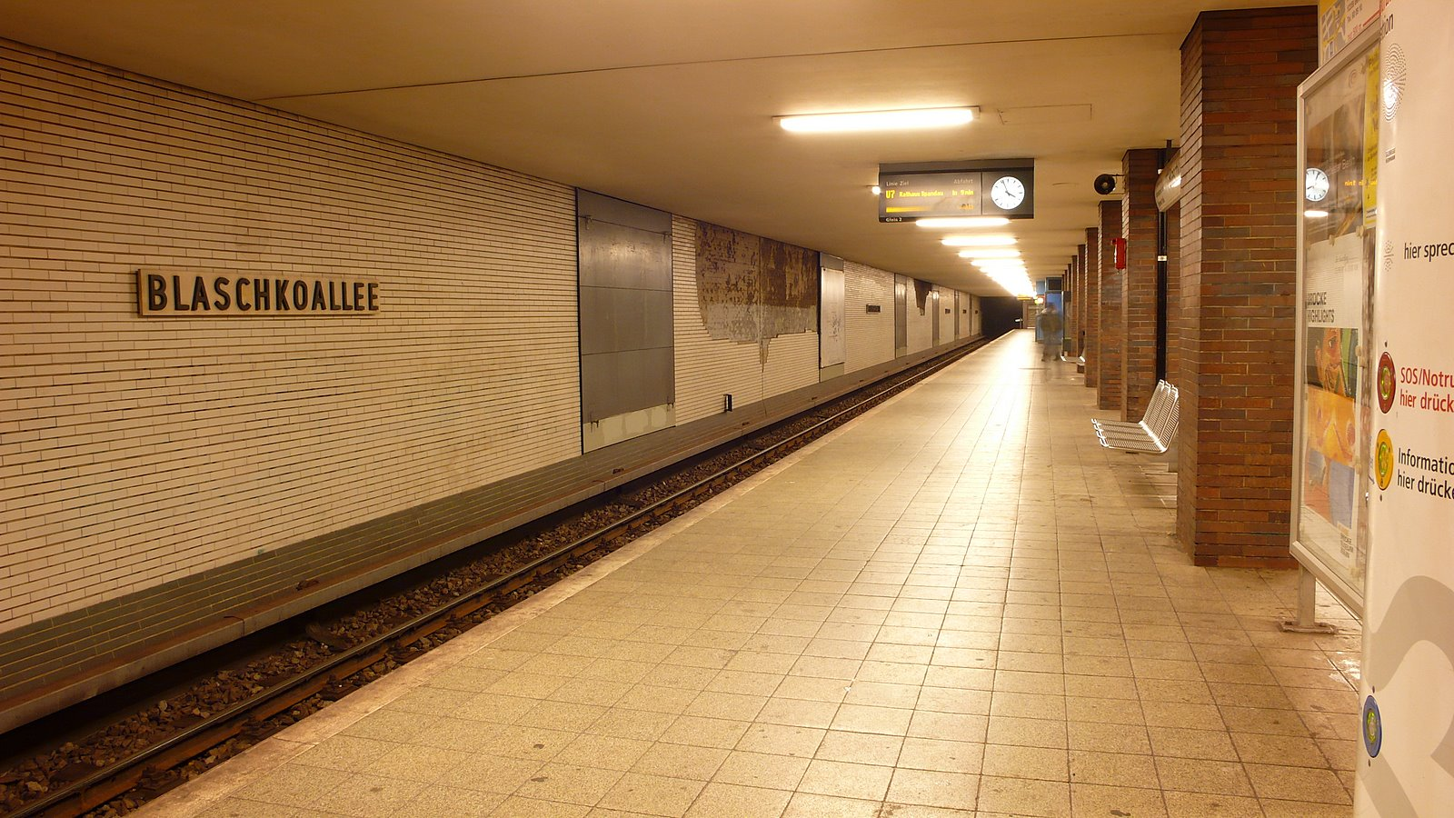 Subway Blaschkoallee U7 Berlin